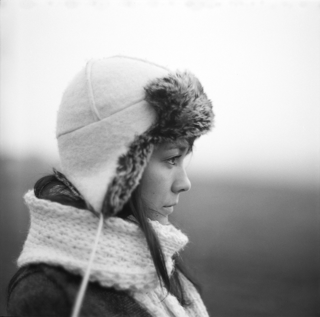 Jo, staring out over the field. It's been a year with the Norita now. It's broken but I can squeeze photos out of it with some measure of skill and luck. There's actually no snow in the background but let me tell you this has been one of the most wintery winters in the long history of Swedish winters. Although they aren't that wintery anymore. After this day, snow blanketed us and we hade to practice Death-grips and Tiger-bite inside. That's a Swedish Russkie.